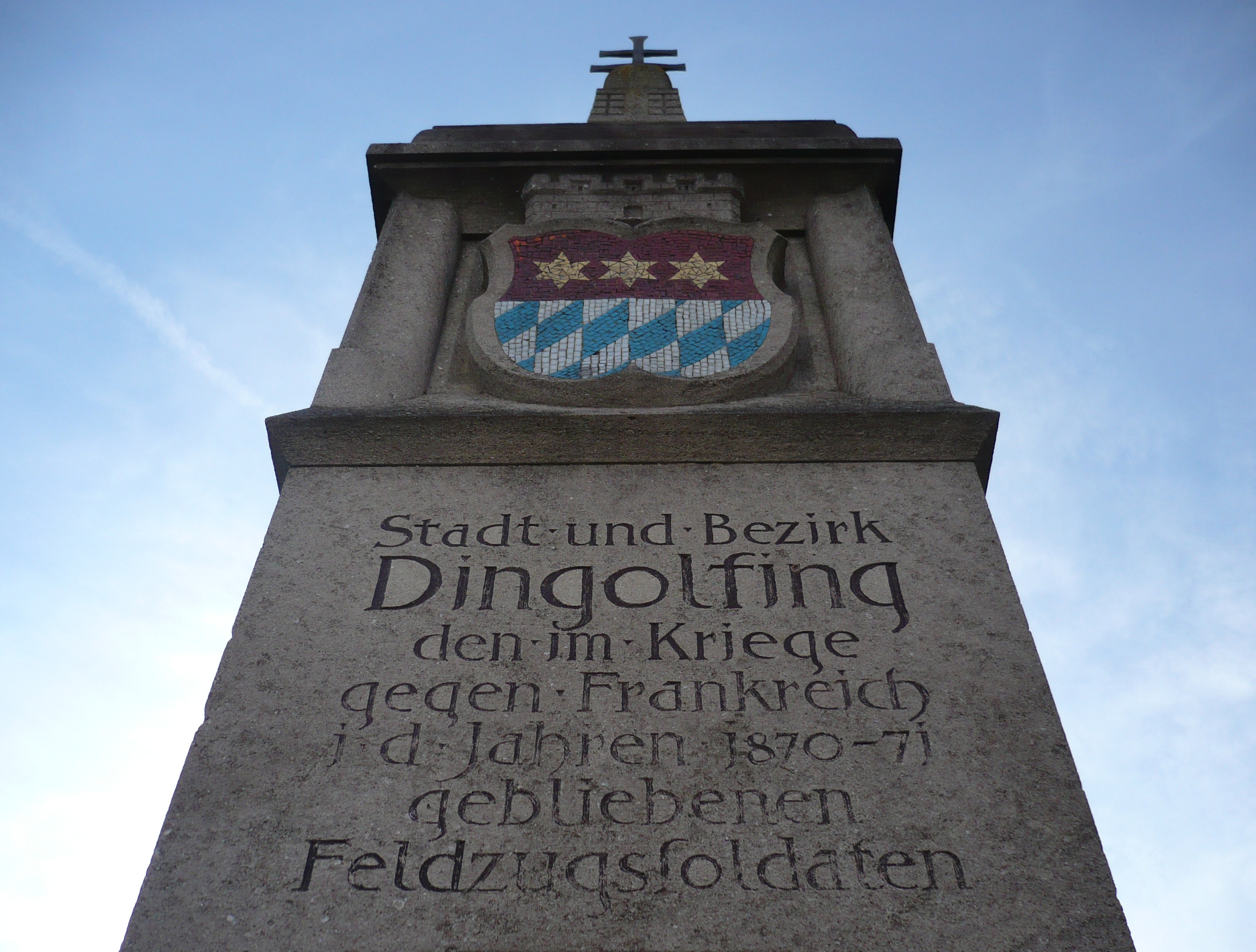 photo: Dingolfing